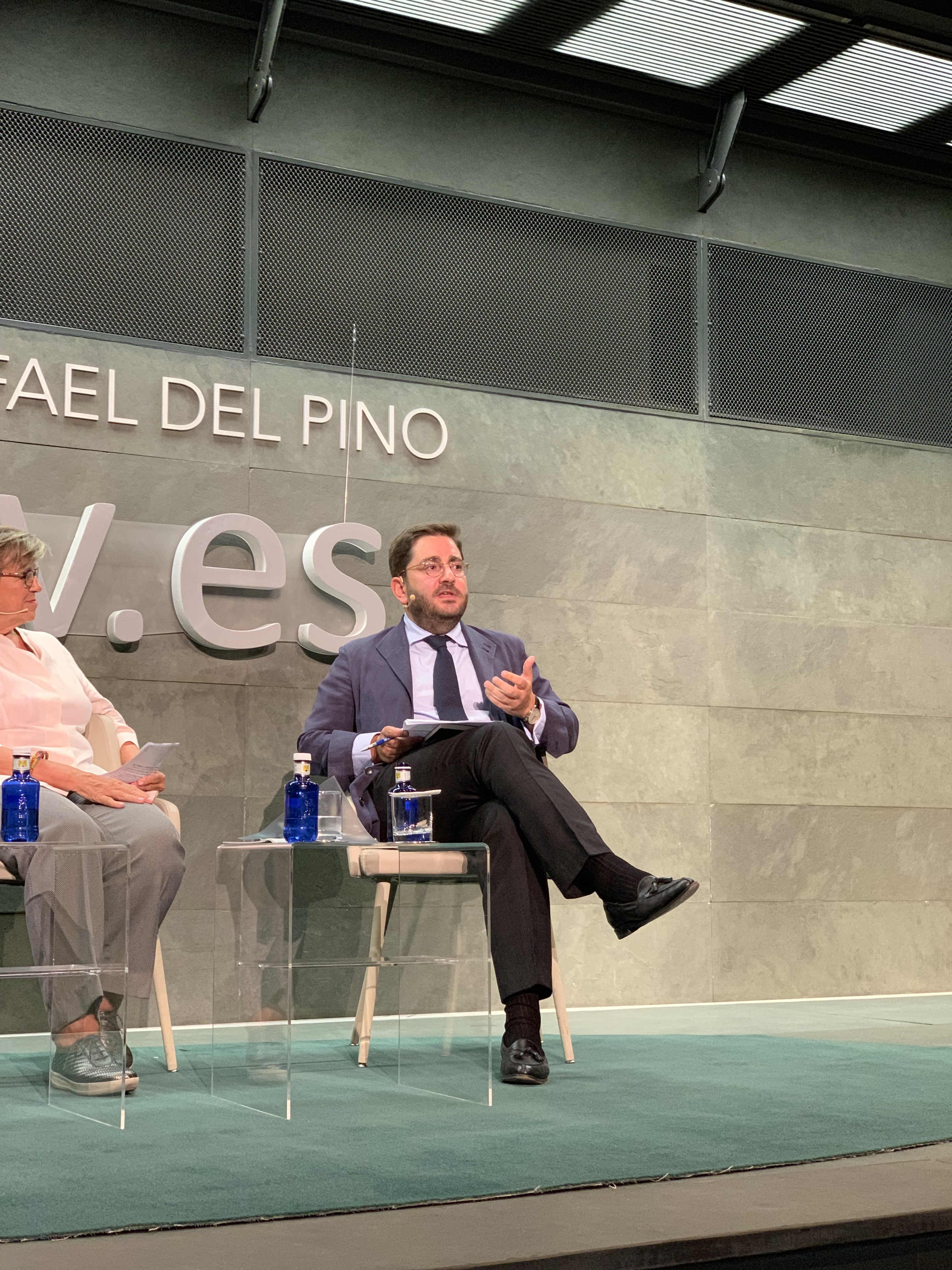 Dean Manuel Muñiz at a conference at the Rafael del Pino Foundation.